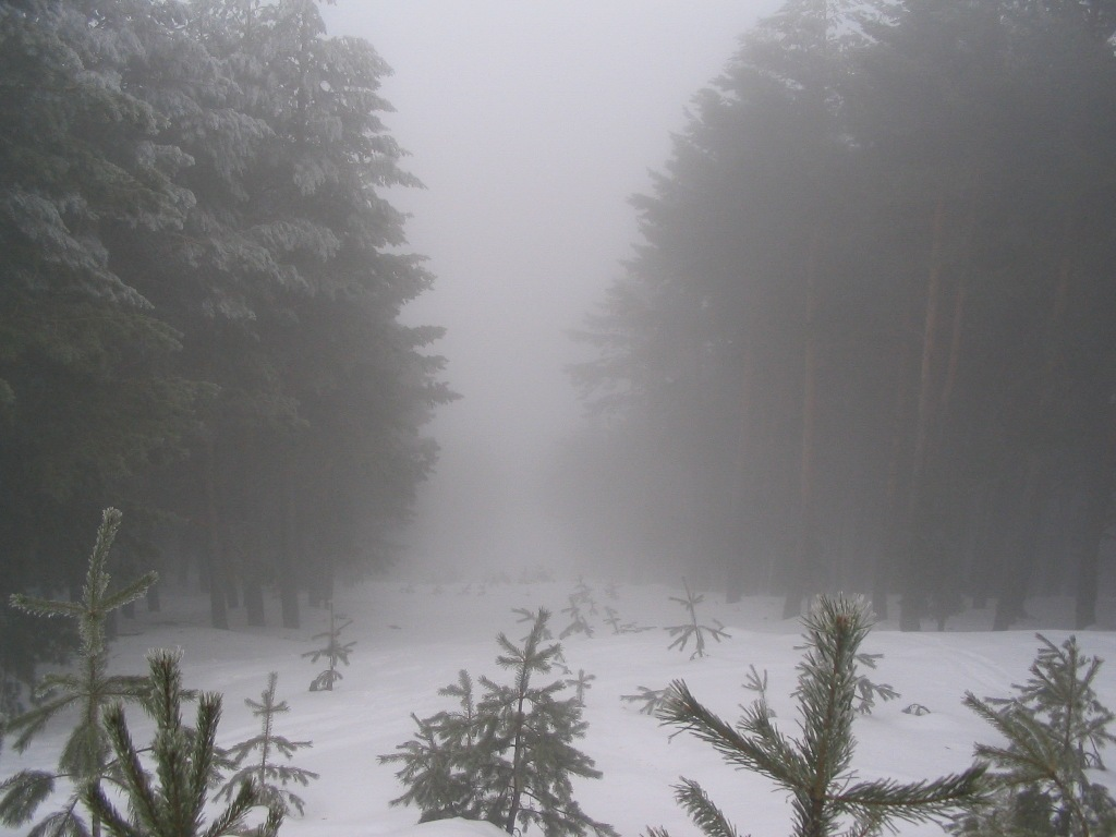 Winter fog in the mountain, Spain Author: Miguel303xm Date: March 11th, 2006